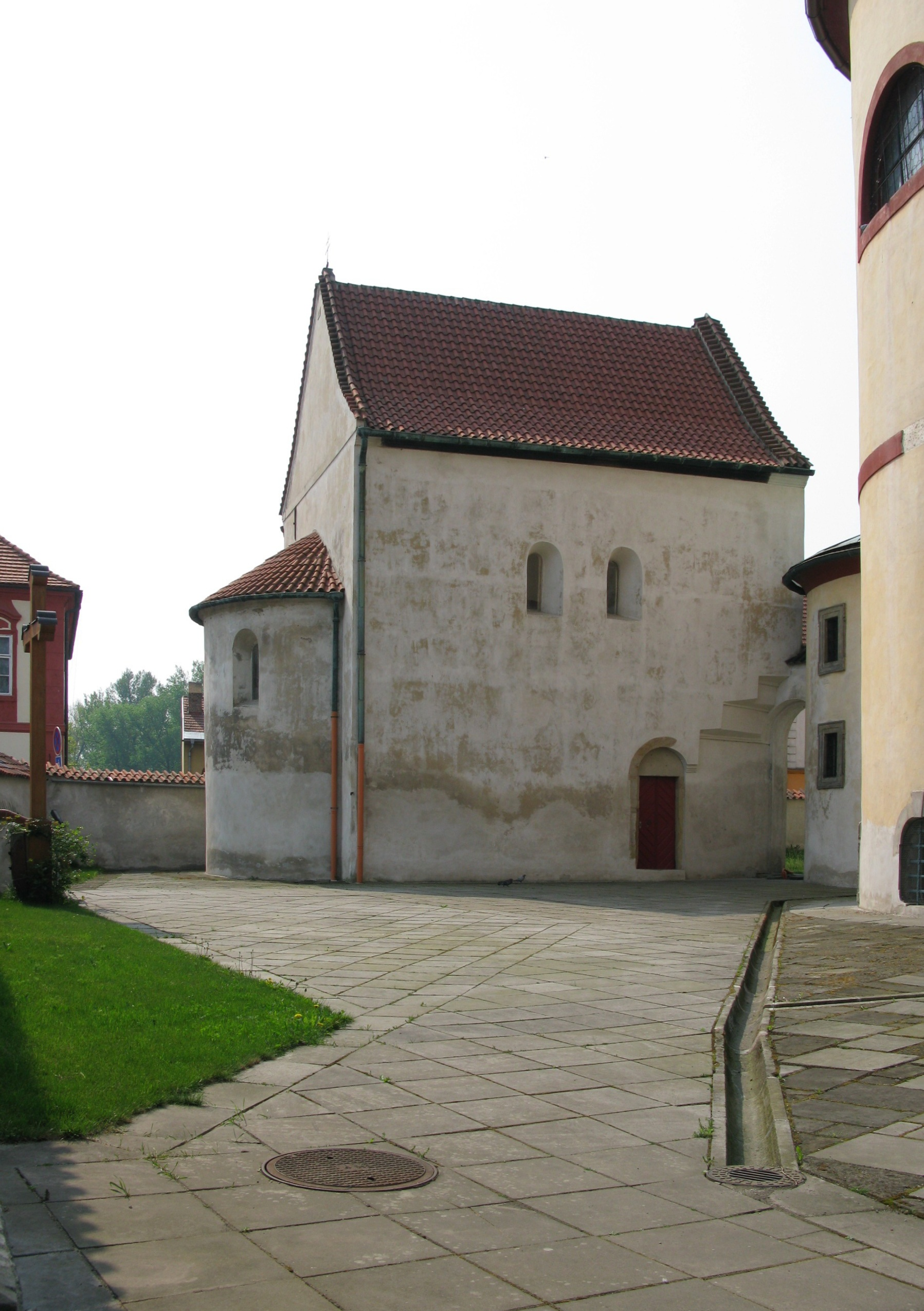 Saint Clemens church in Stara Boleslav, 11th century